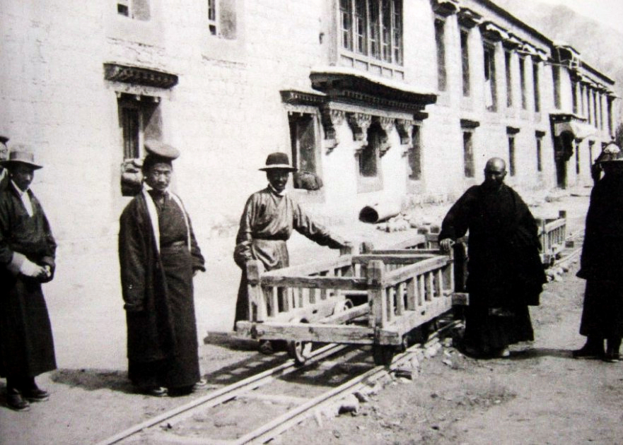 (full original source description's translation) Figure 1: The Tibetan coin (mint) Drapshi Lekhung (north side of the main building), photographed by F. Williamson on August 31, 1933 (1). According to Bla-phyag mkhan-chung Thub-bstan bstan pa (2003, p. 156), the official, which can be seen in the photograph on the extreme right, is Kunphel (Kun-'phel; And name is sku-bcar spyan-bsal Thub-bstan kun-'phel). He was one of the closest confidants of the 13th Dalai Lama and was responsible for the modernization of the mint. The second person from the right is mkhan-drung dngos-gzhi thub-bstan kun-mkhyen and the fourth from right is rim-bzhi byang-ngos-pa Rig-dzin rdo-rje. This is the official who is better known under the name of Ringang Rigdzin Dorje (Rin-sgang Rig-dzin rdo-rje) and who was responsible for supplying the mint with electrical energy. Bla-phyag mkhan-chung Thub-bstan bstan-pa does not give any information about the third person from the right. It is, however, to be assumed that it is Rai Bahadur Norbu Dondup, who accompanied the British mission, which visited Lhasa in 1933, as an interpreter. Head of this mission was the British diplomat Frederick Williamson (1891-1935).